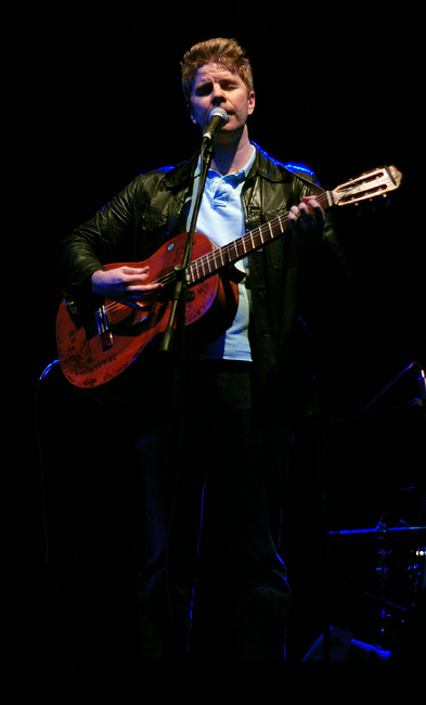 Photo taken at concert in Nizhny Novgorod, Russia 16-03-2010